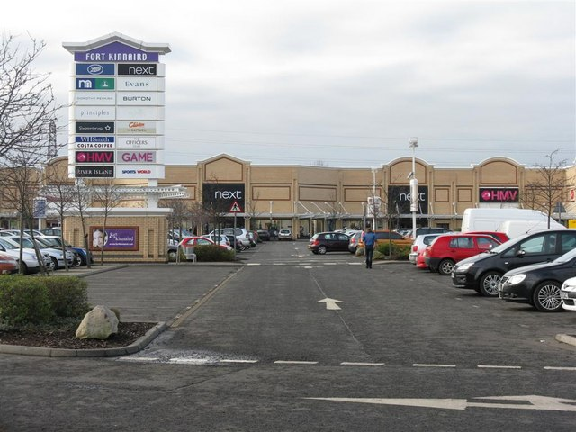 What's Next...? Another part of Fort Kinnaird shopping centre, which actually occupies parts of three km squares.